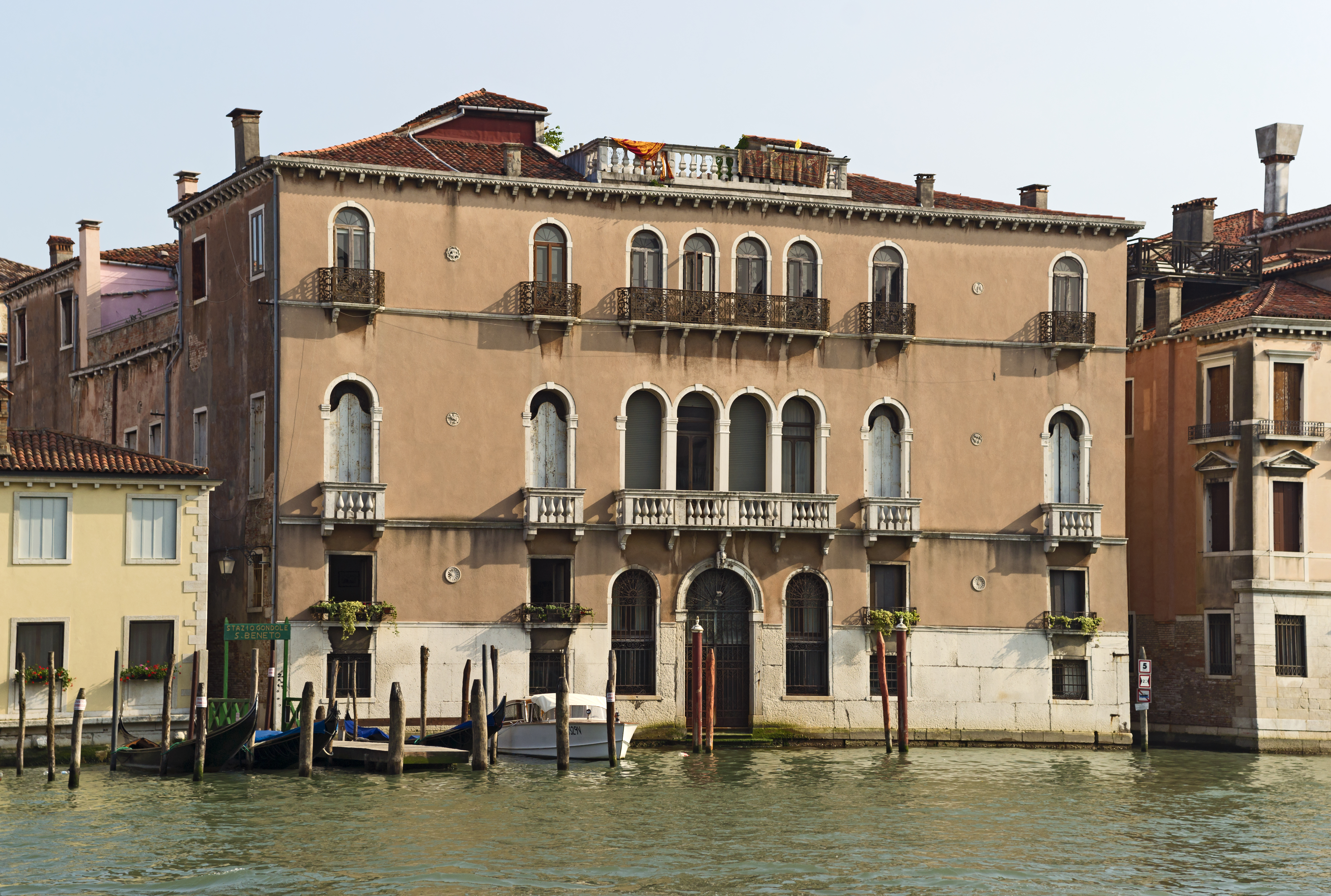 Palace Querini Benzon ; the facade on the Grand Canal, Venice